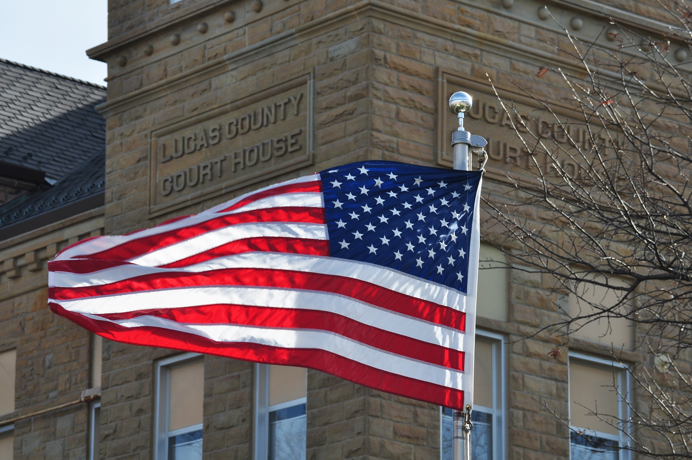 Lucas County Courthouse, Chariton, Iowa